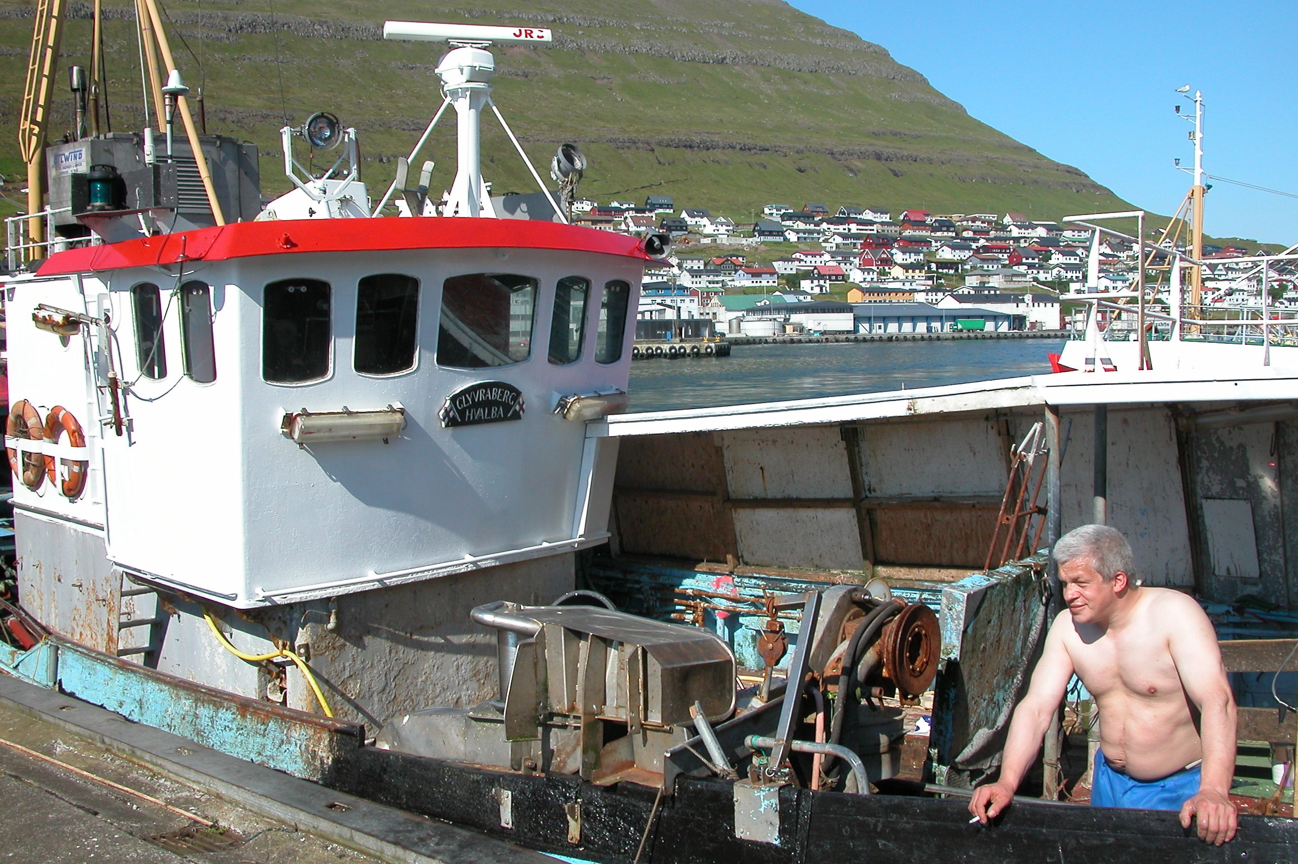 Fisherman of Klaksvík, Faroe Islands.Magnus Johansen